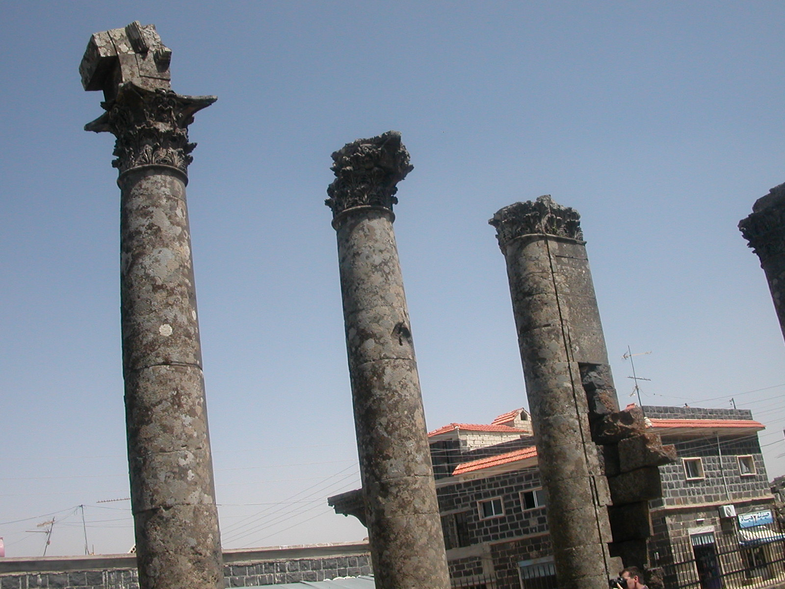 The Serai, ruins of a late 4th century church in Qanawat, Syria.